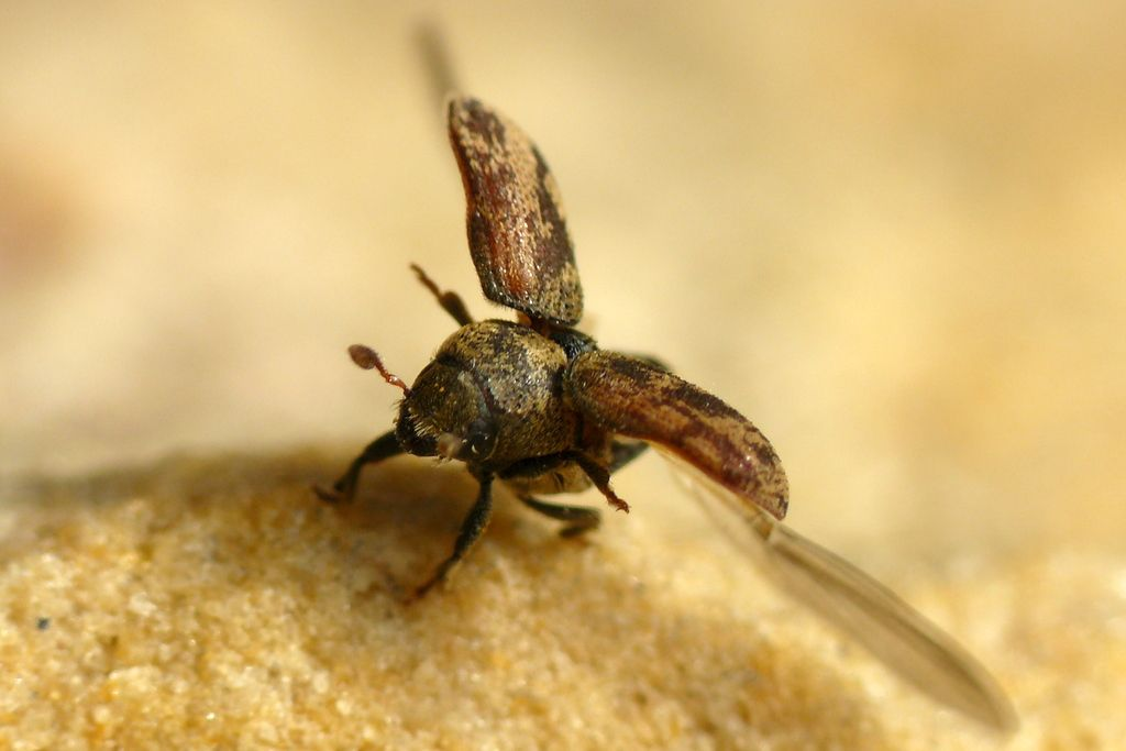 Hylesinus varius